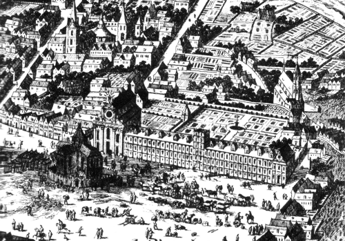 Jesuit College in Prague